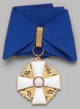 Insignia of a Commander of the Order of the White Rose of Finland